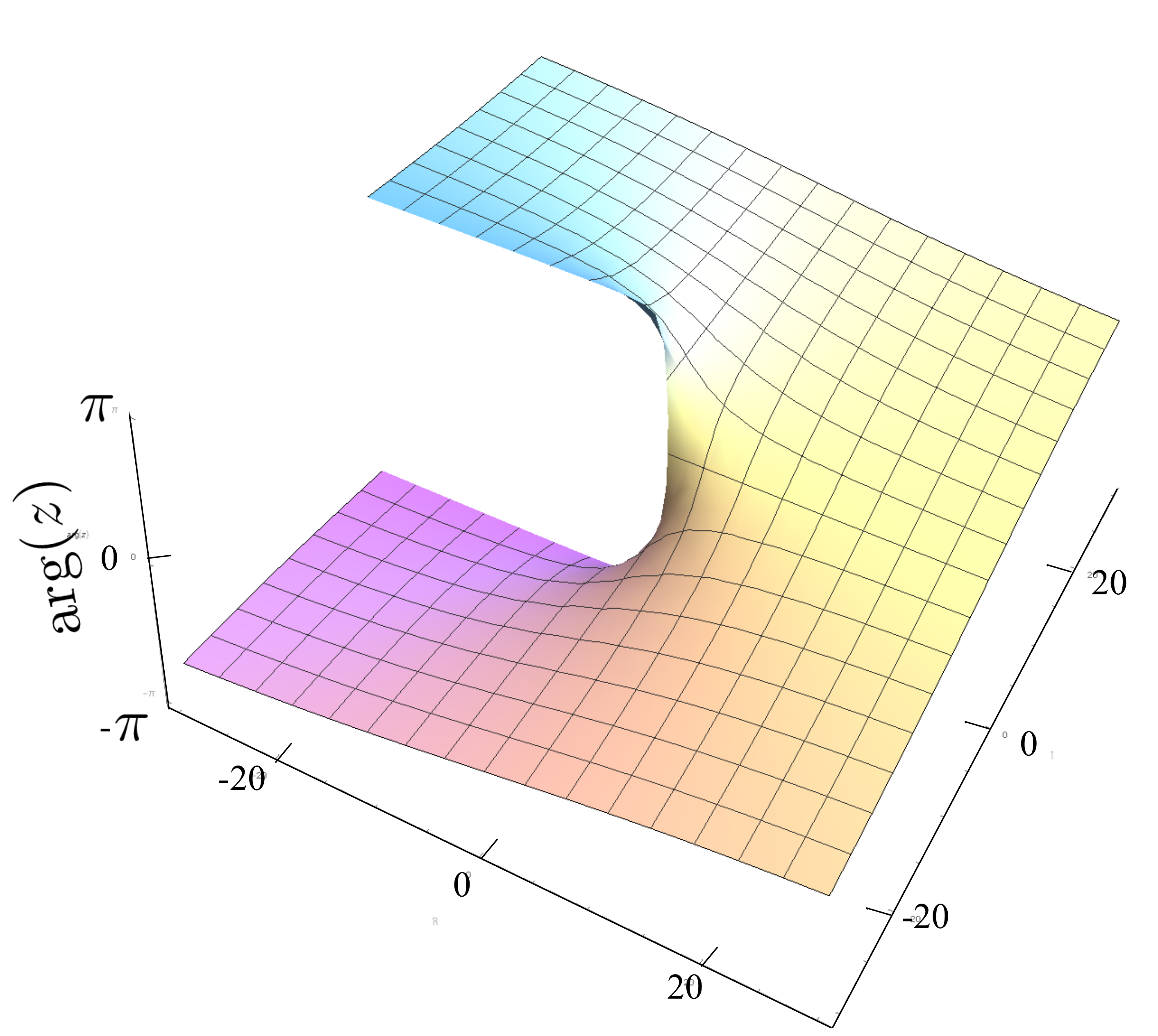 The Arg function